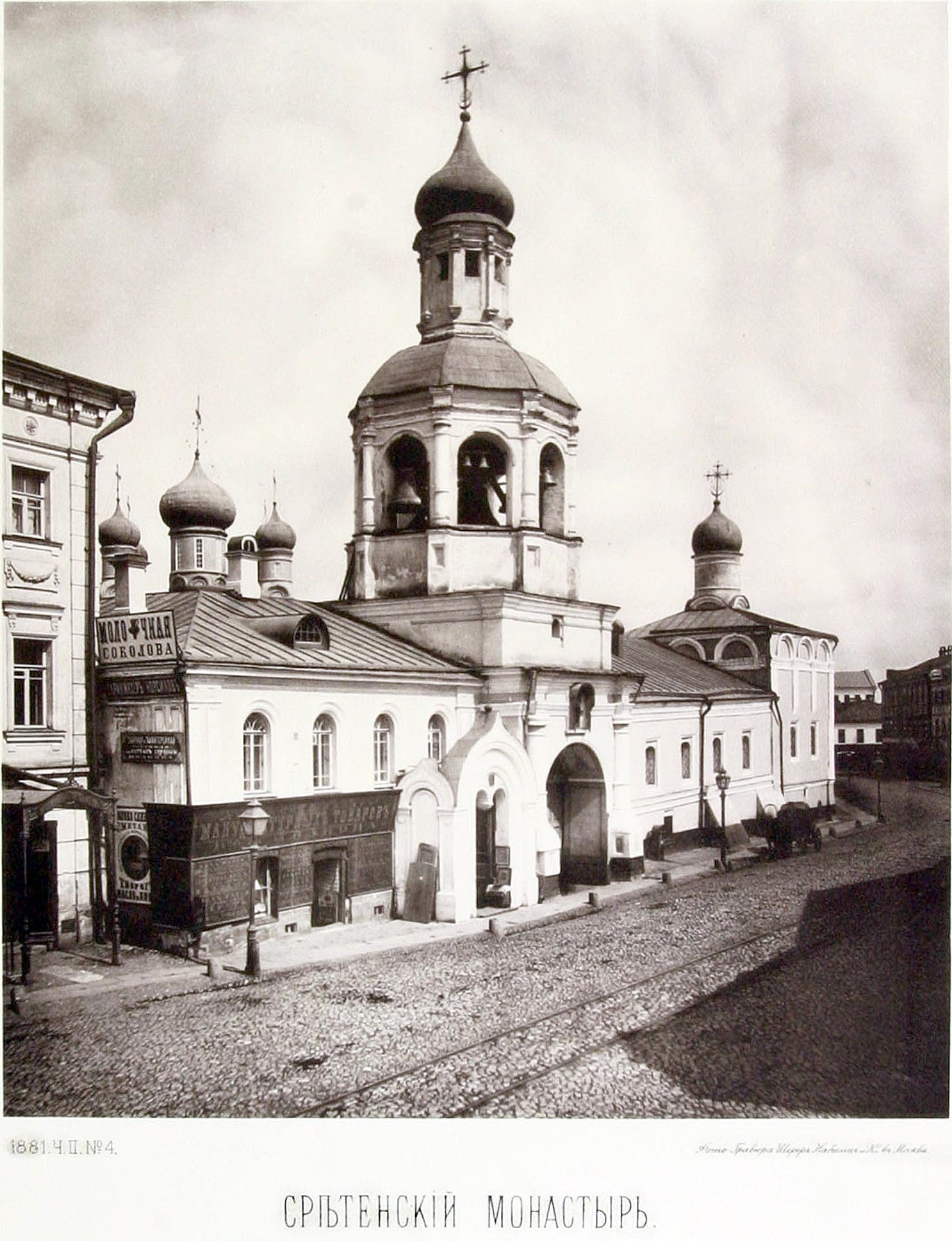 Sretensky Monastery in Moscow, as seen from Lubyanka Street in 1882.